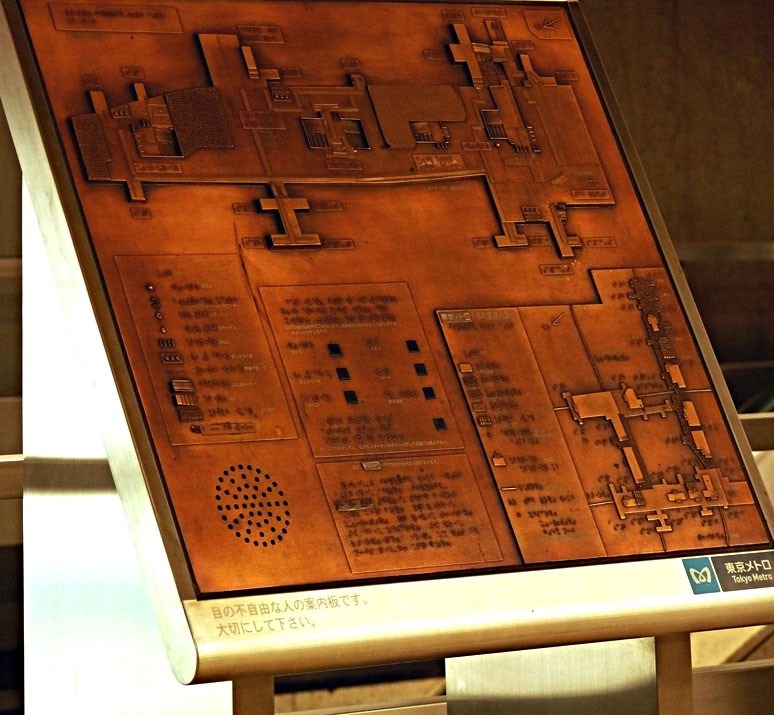 A Universally designed map in Otemachi station (Tokyo, Japan). This board has a solid map, braille letters and audio guide system to help blind people. It is designed both elegantly and universally.